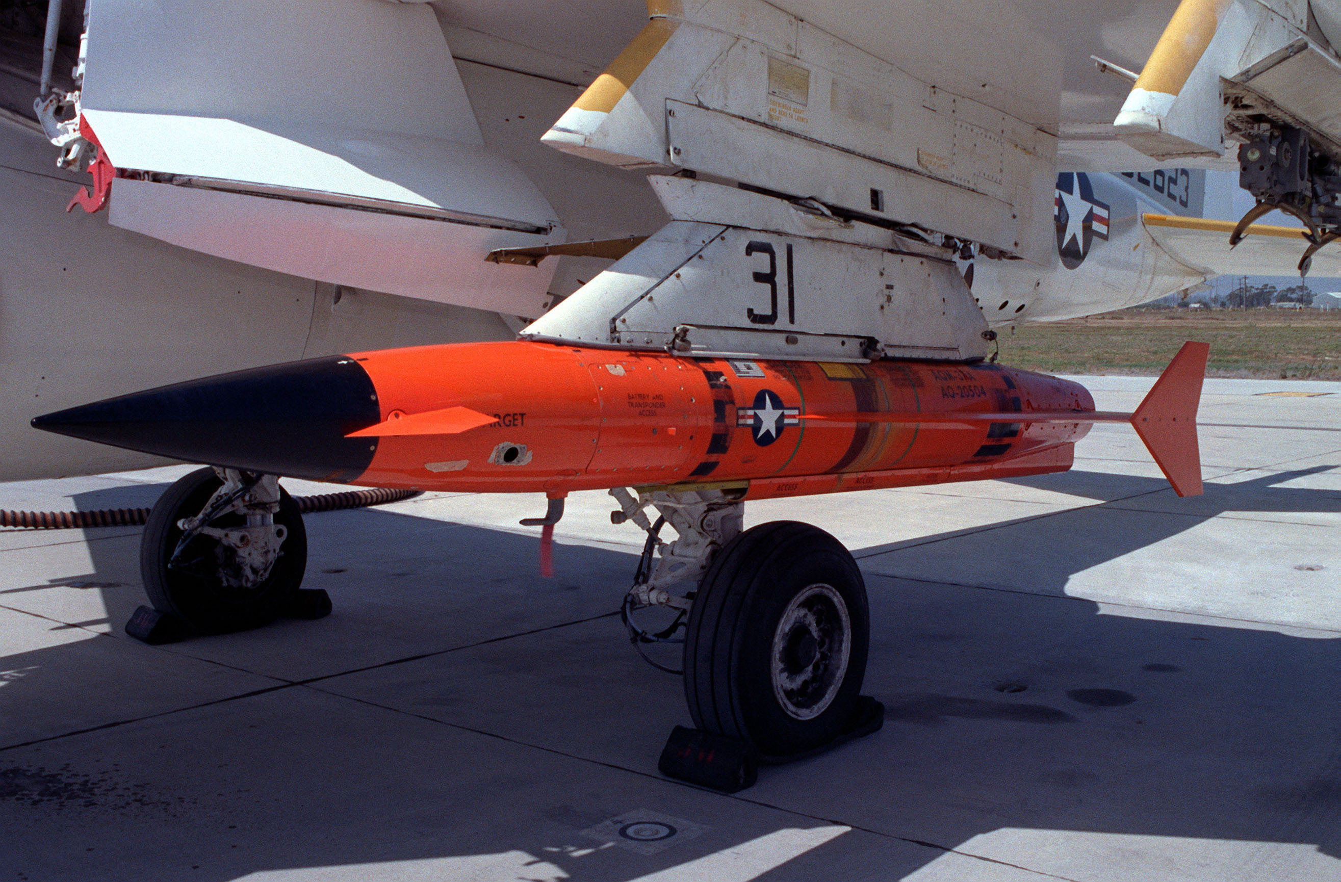 A view of an AQM-37A target after it is uploaded onto the wing of an A-6E Intruder aircraft, at the Pacific Missile Test Center. Location: NAVAL AIR STATION, POINT MUGU, CALIFORNIA (CA) UNITED STATES OF AMERICA (USA)